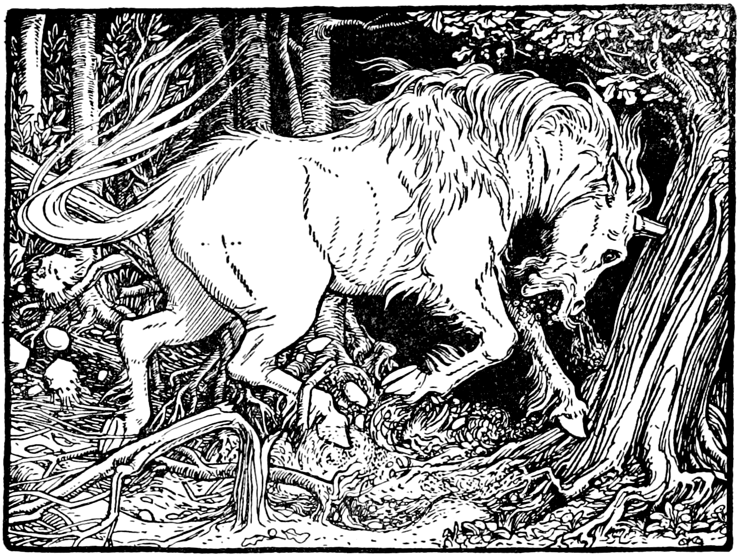 Illustration from a book of fairy tales from Europe, translated into english